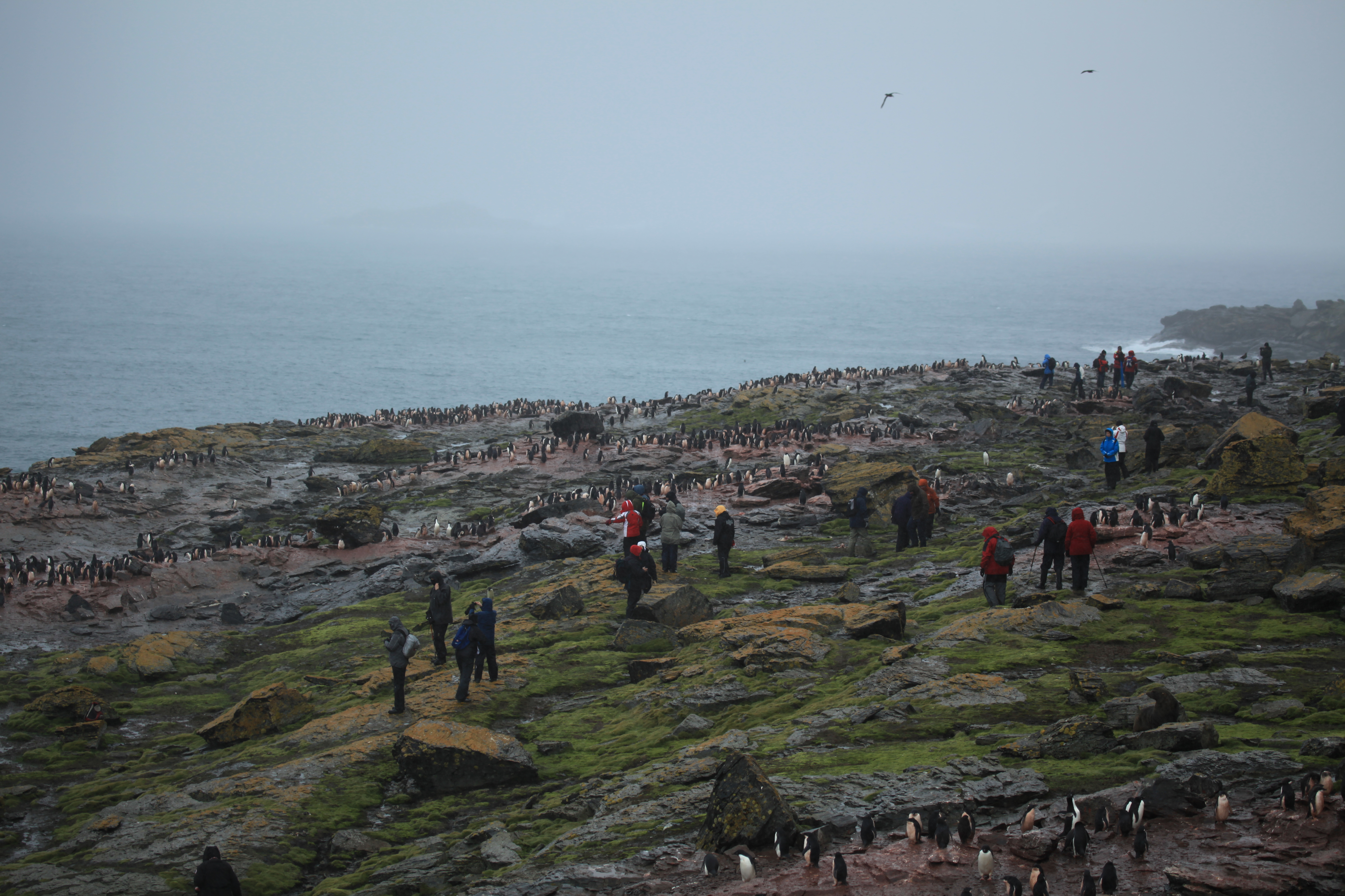 At Shingle Cove, on Coronation Island in the South Orkneys, Antarctica.